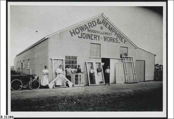 Howard and Remphrey Joinery Works, Woodville West